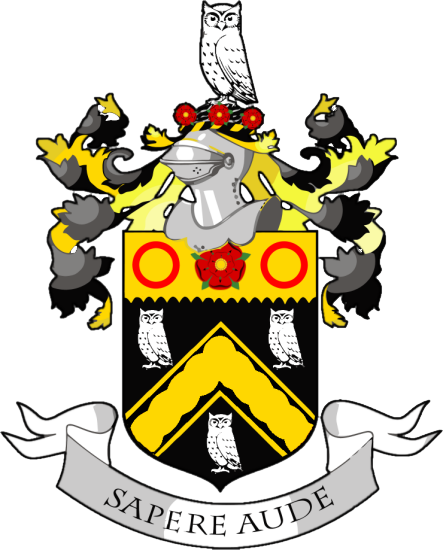 Coat of arms of the former Municipal, and later, County Borough of Oldham Council. The armoural description is as follows: ARMS: Sable a Chevron invected plain cottised Or between three Owls Argent on a Chief engrailed of the second a Rose Gules barbed and seeded proper between two Annulets also Gules. CREST: On a Wreath of the Colours in front of a Rock thereon an Owl Argent three Roses fessewise Gules barbed and seeded proper. Motto: SAPERE AUDE